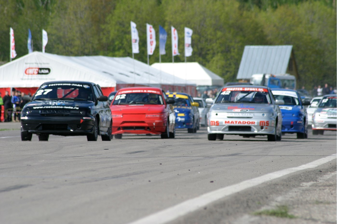 Lada Cup (Lada 112), ADM, 2005